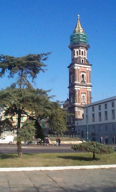 Private photo taken and uploaded by user Jeffmatt| 05:38, 25 September 2006 (UTC). No rights claimed. Private photo taken and uploaded by user Jeffmatt 05:38, 25 September 2006 (UTC). No rights claimed.